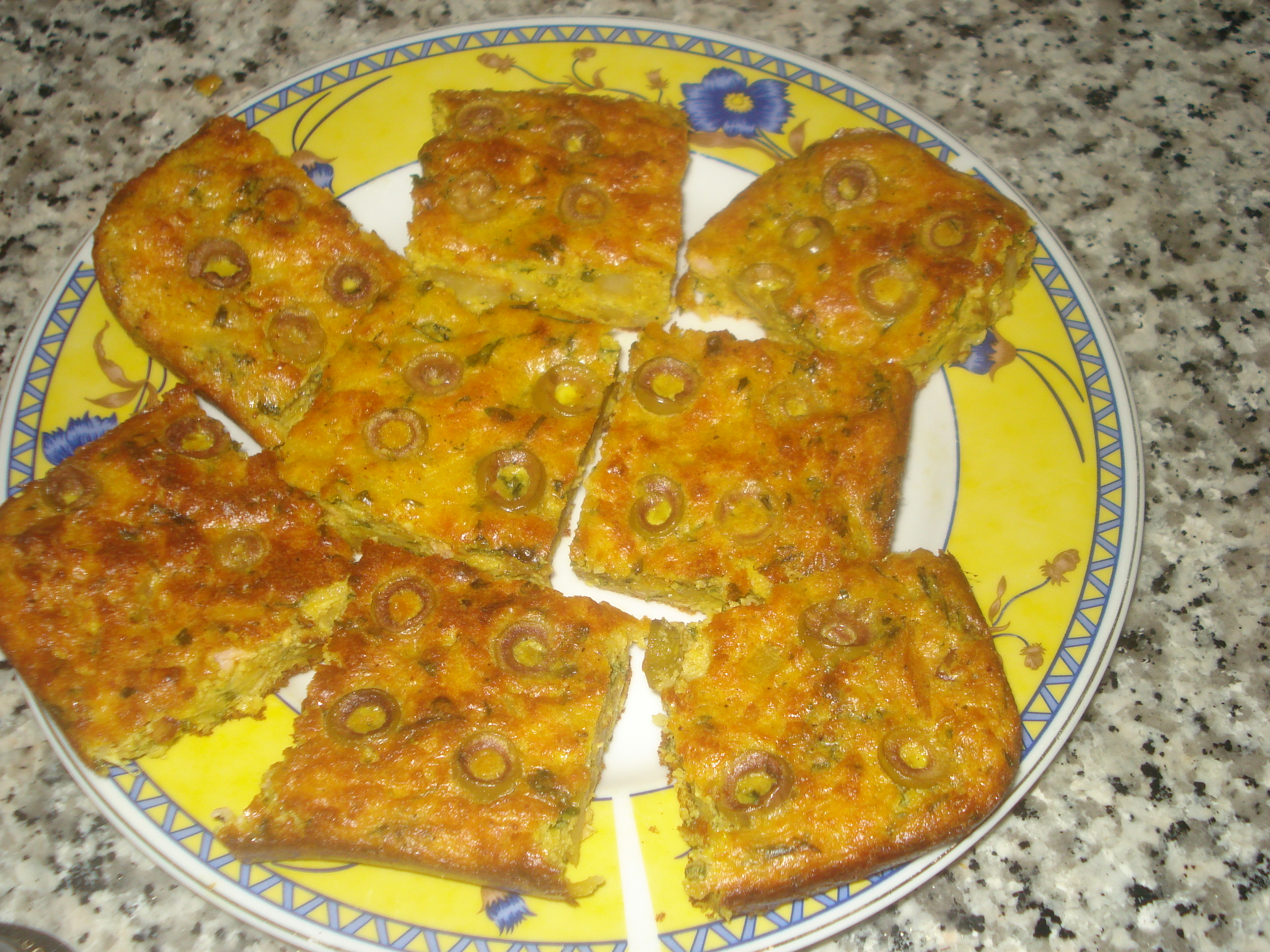 This is an image of food from Tunisia